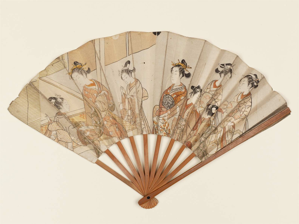 A folding hand fan set with two prints by the Japanese ukiyo-e artist Suzuki Harunobu